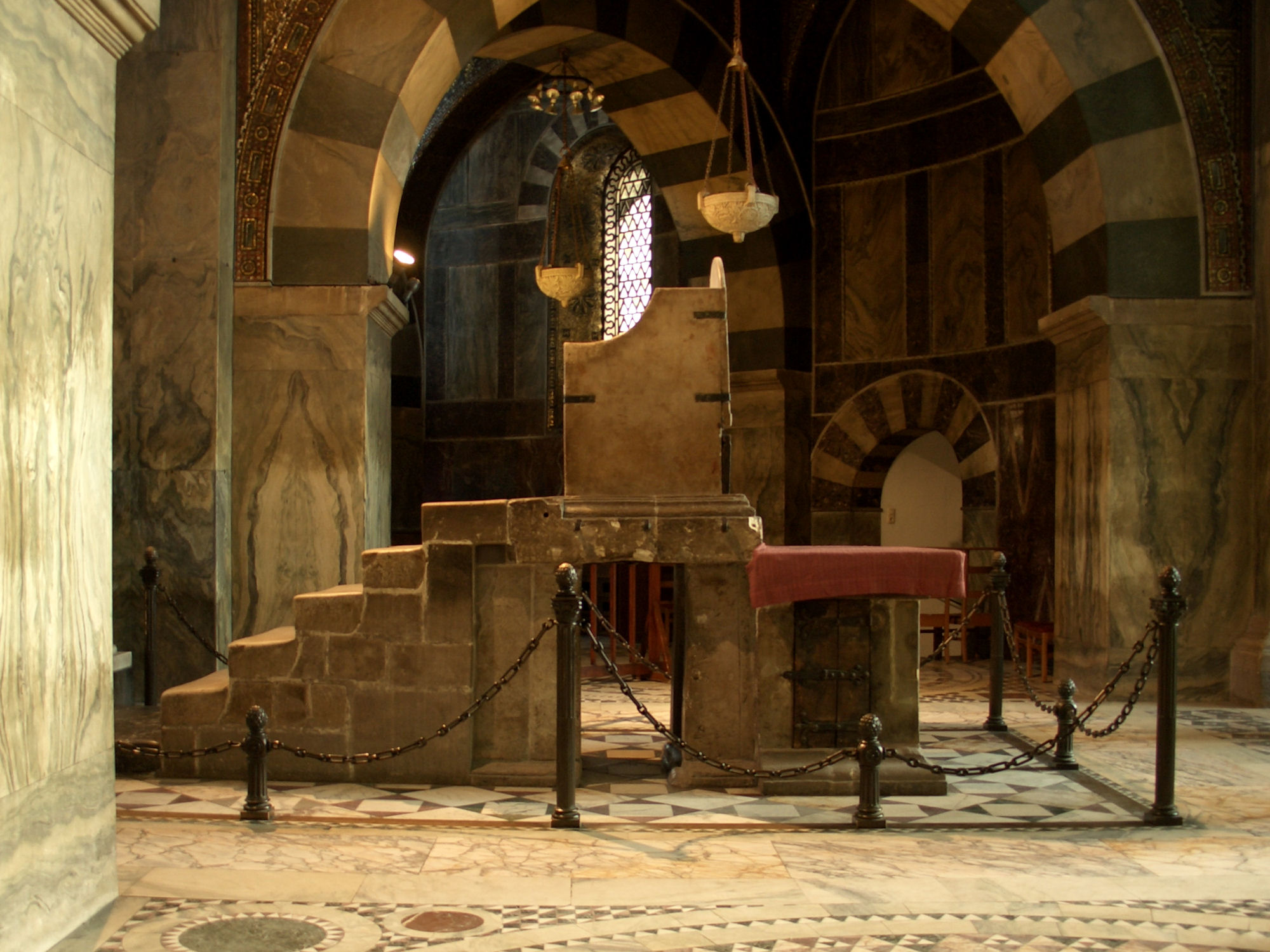 Throne of the Holy Roman Emperors at Aachen cathedral.